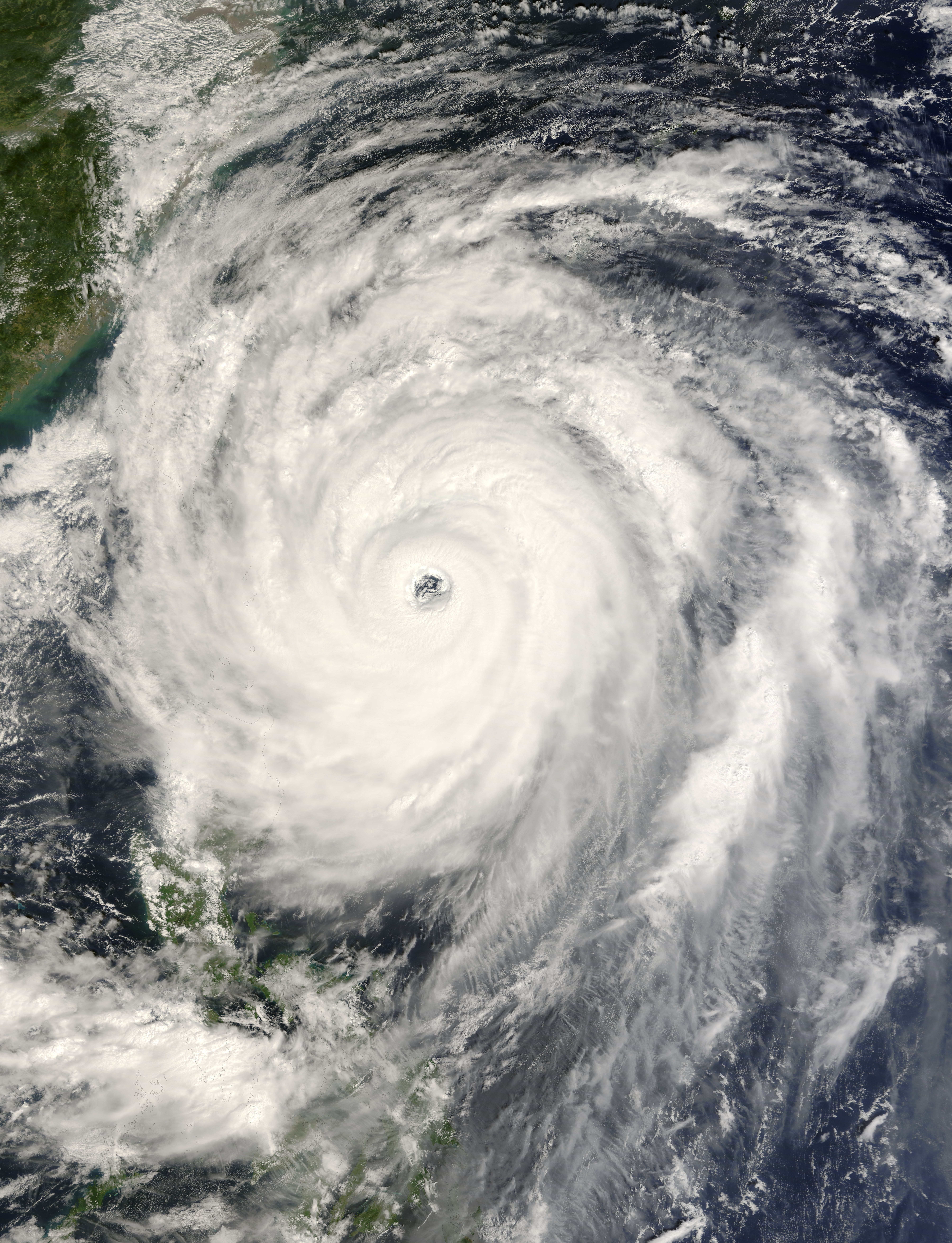 Super Typhoon Krosa (17W) approaching Taiwan, as seen by the MODIS instrument aboard NASA's Terra satellite on October 5 at 0215 UTC.